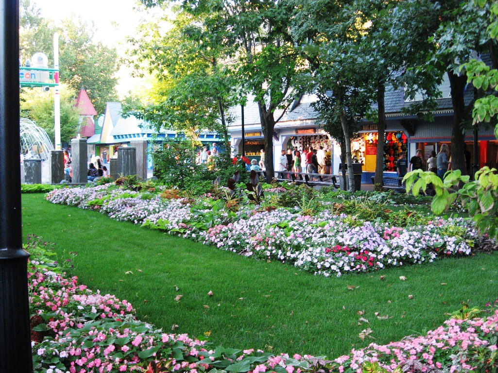 Gardens on the central Midway